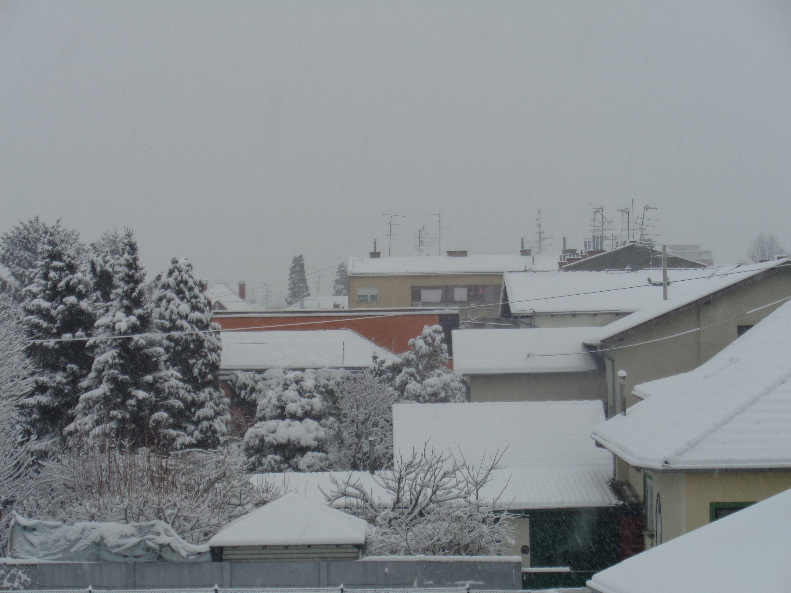 The Town of Čakovec, Croatia, in winter - roofs under snow